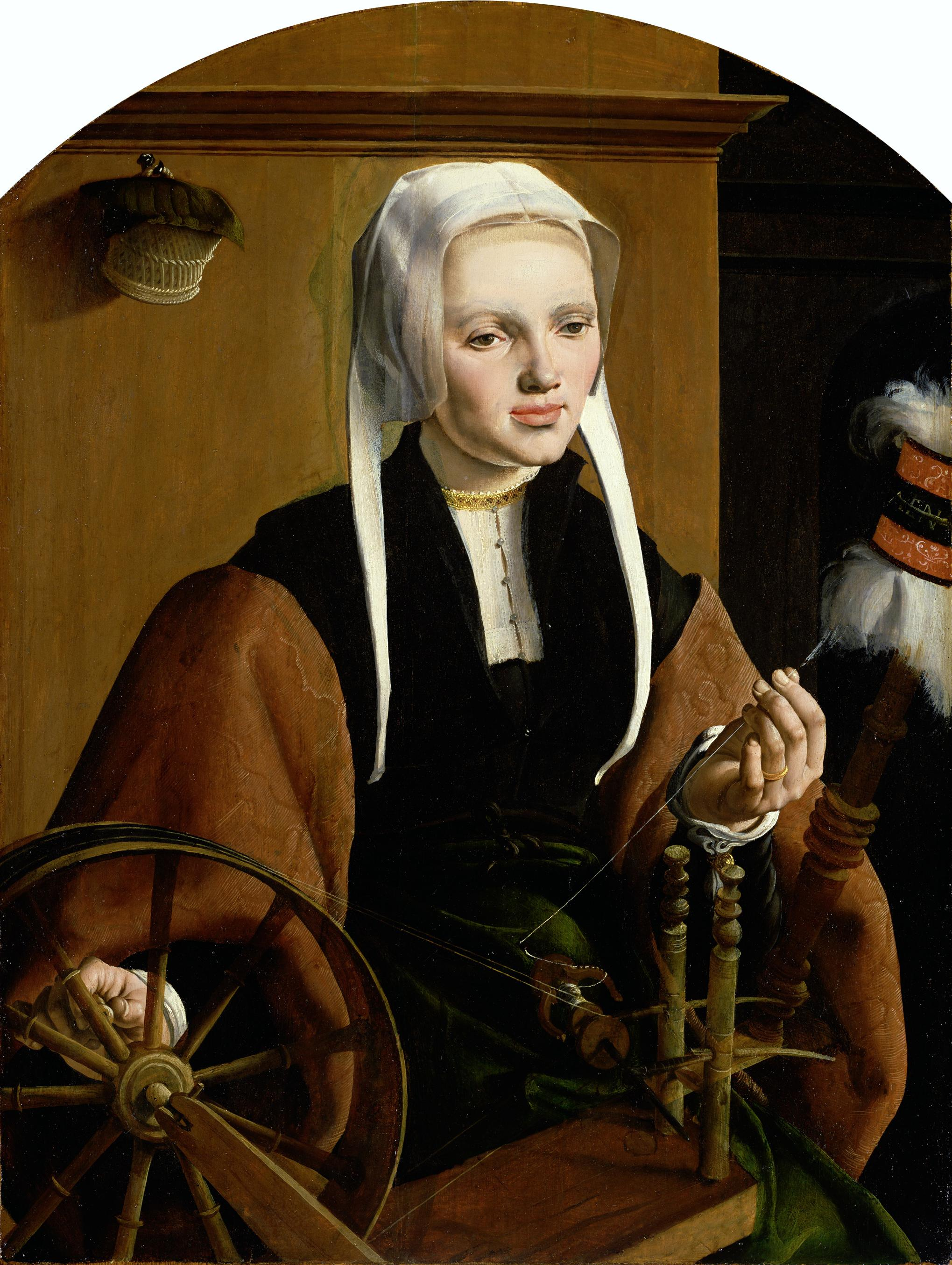 Portrait of a woman, sitting at her spinning wheel in a room.